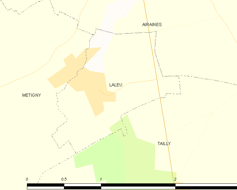 Map of French municipality Laleu